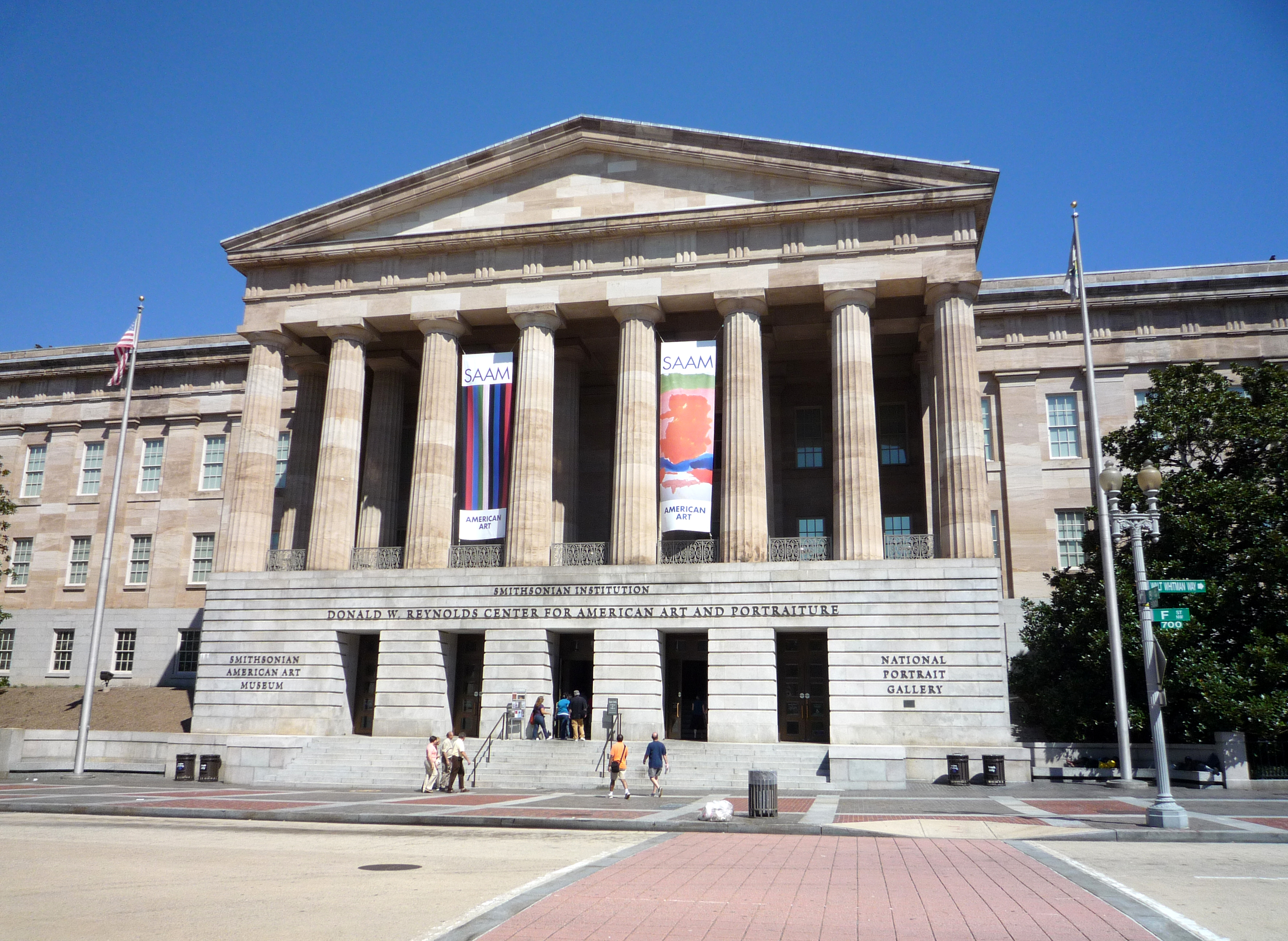 National Portrait Gallery, Washington, D.C..